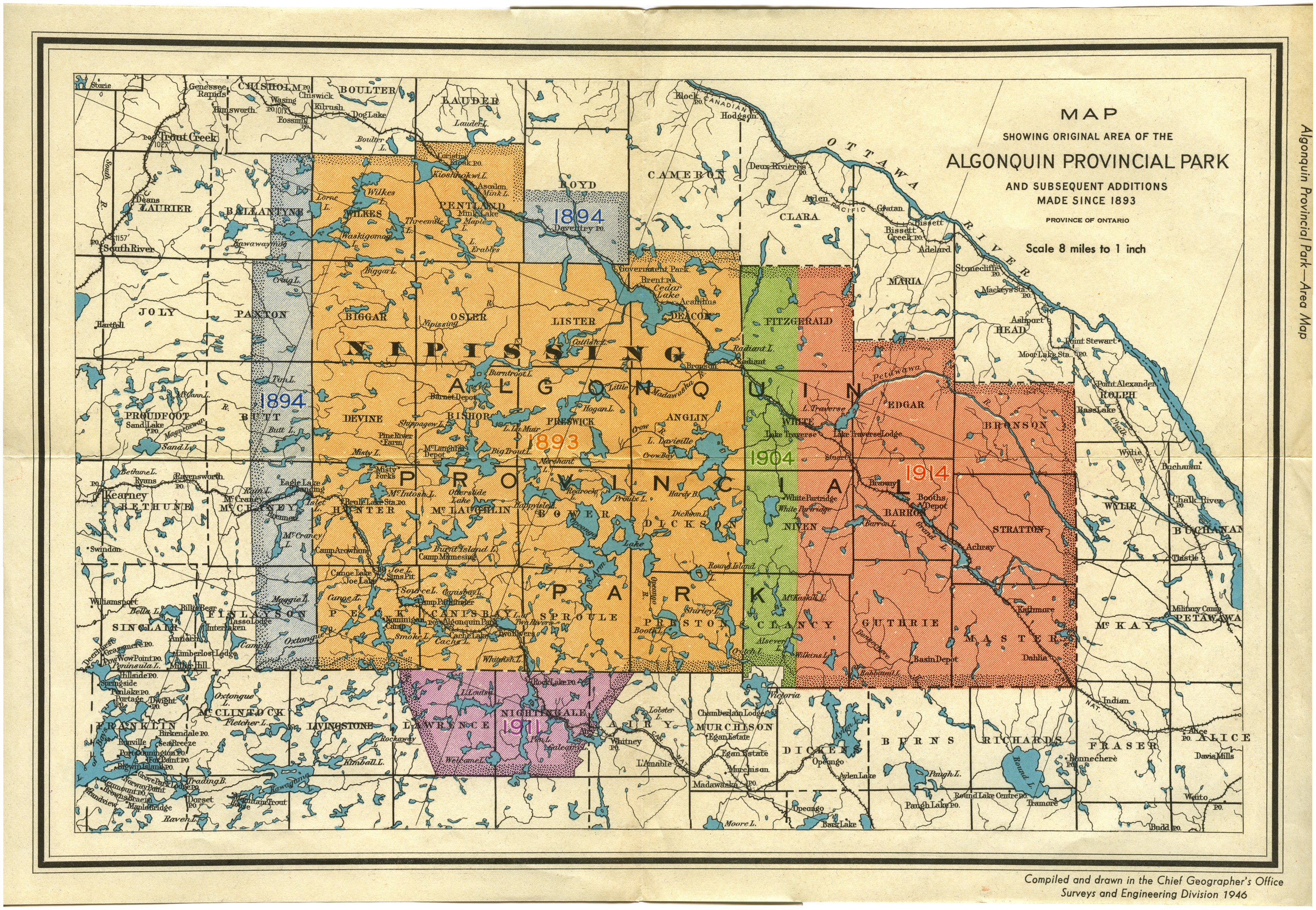 Map of Algonquin Provincial Park.